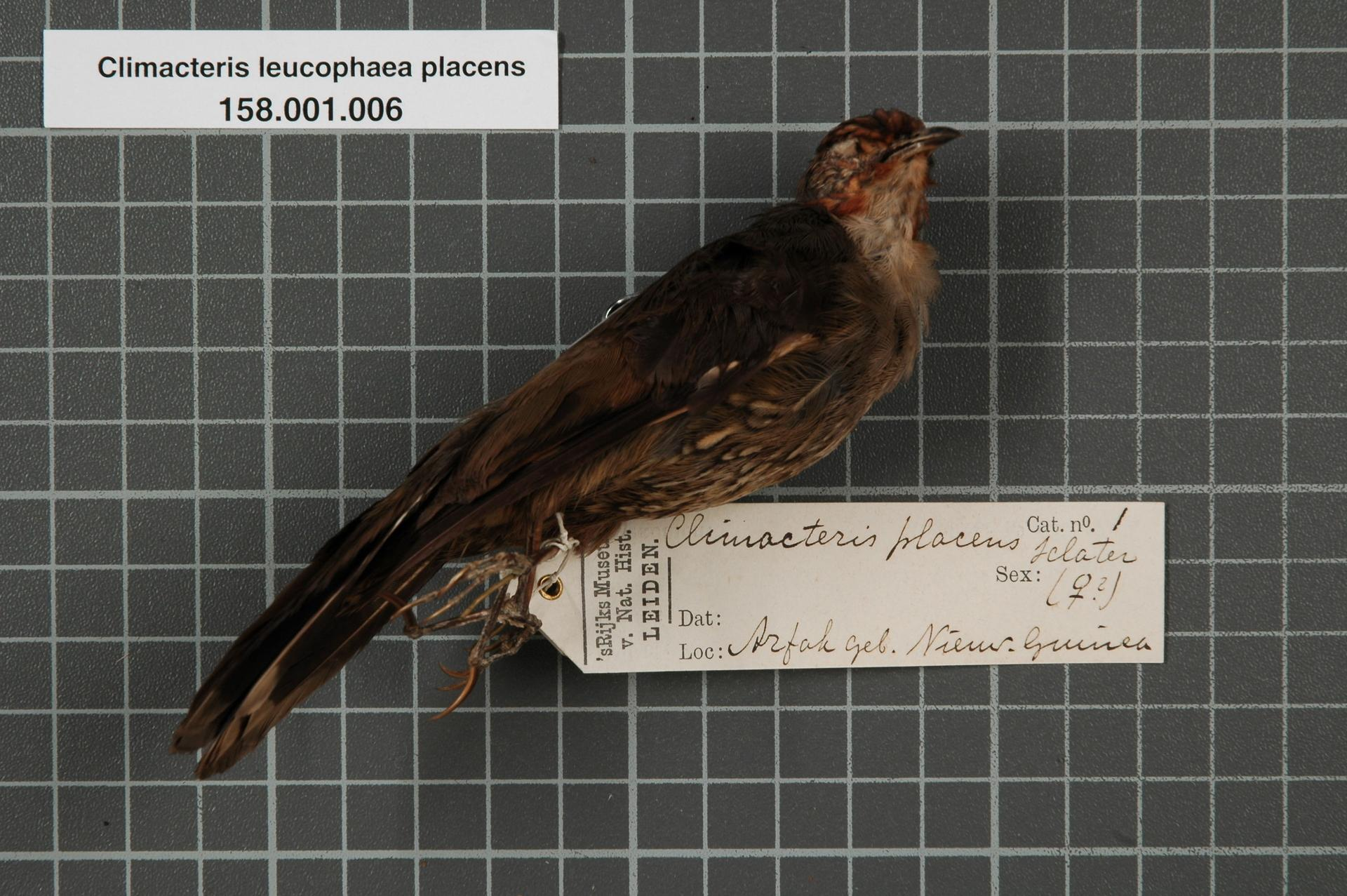 Climacteris leucophaea placens Sclater, 1874